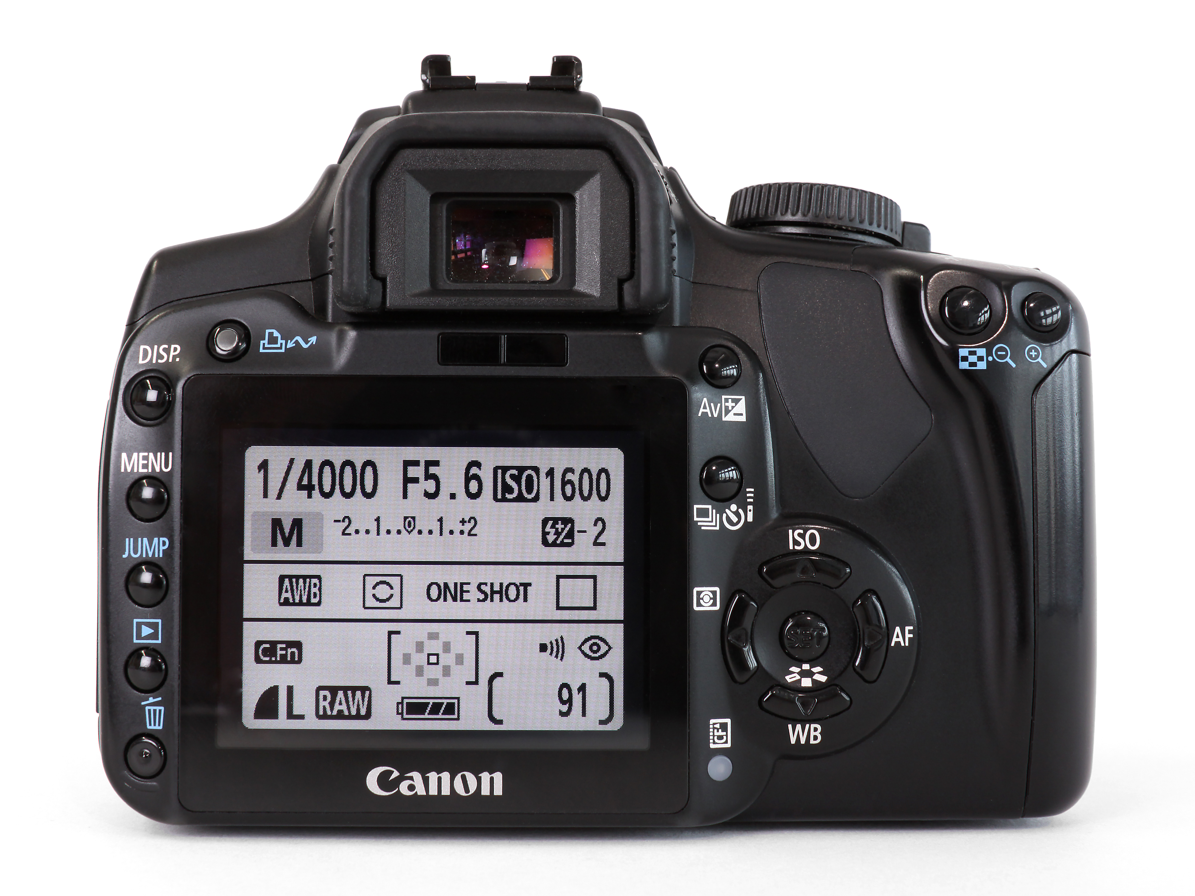 Canon EOS 400D